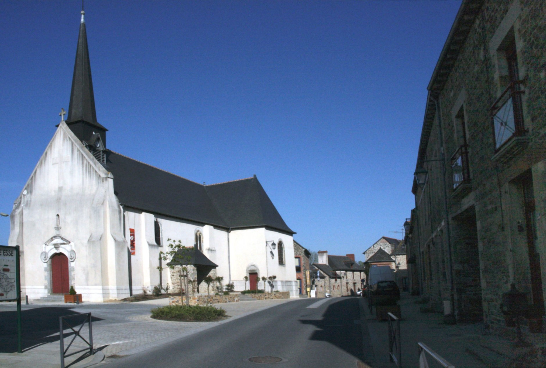 Main street and church Notre-Dame ("Our Lady" [Mary]), village of Essé, department of Ille-et-Vilaine, Brittany, France. Church was built at the 12th century (roman architecture) for a part, and at 15th and 17th centuries for others parts.